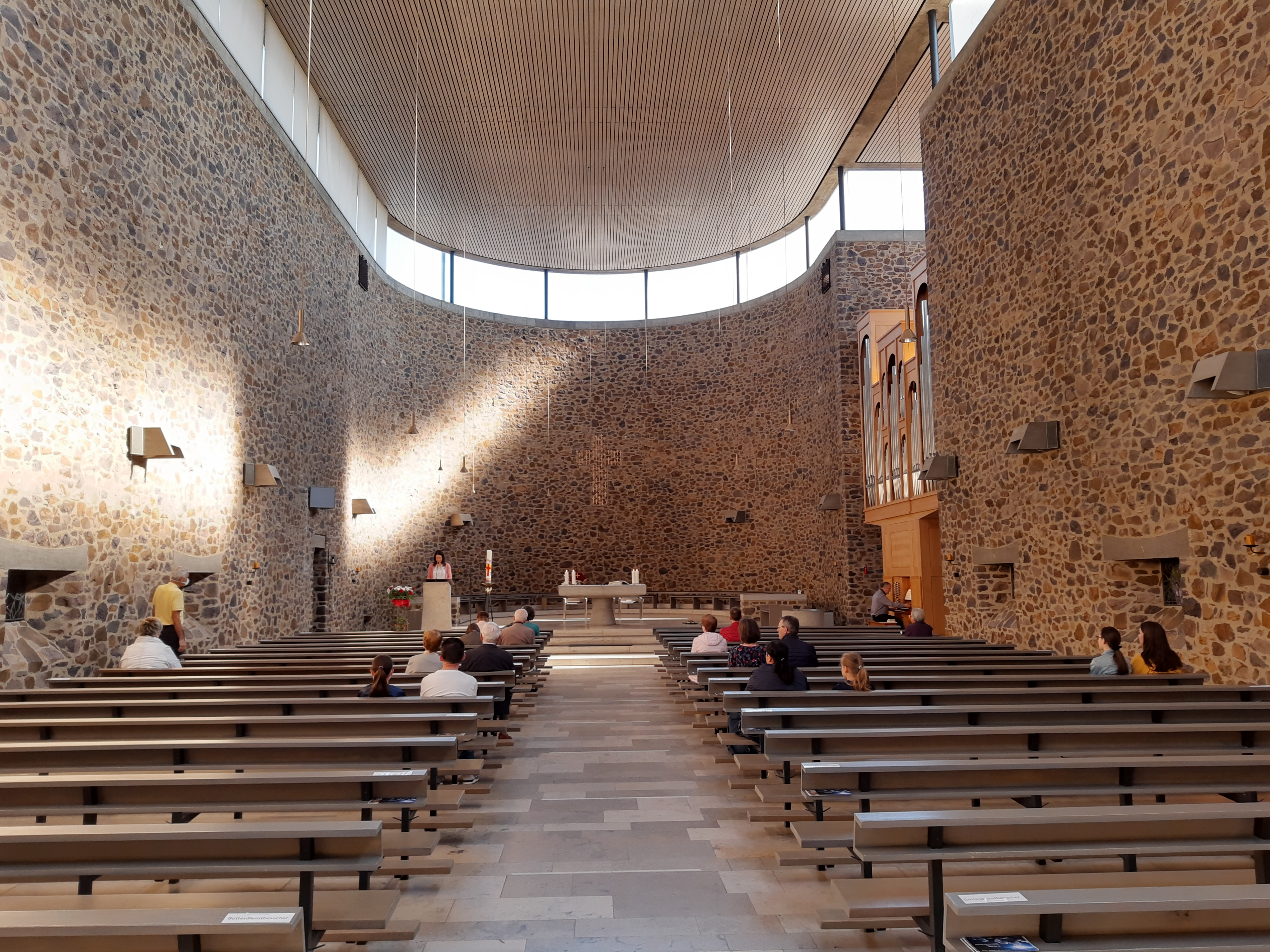 St. Martin, Idstein, church just before a service on Pentecost Monday 2020 during the COVID-19 pandemic, with distanced locations in the benches marked